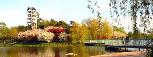 Chicago Botanic Garden Evening Island